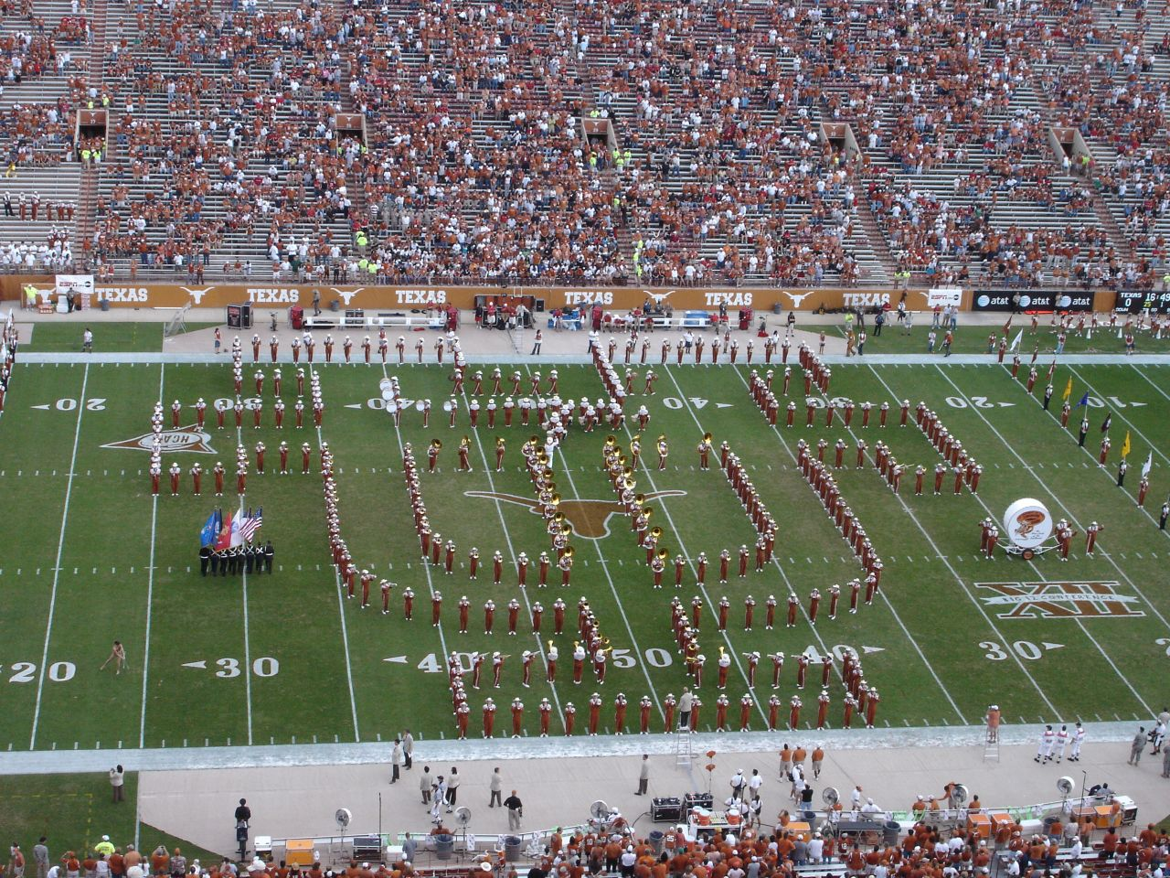 Texas marching band before the 2007 Texas vs. Texas Tech game.